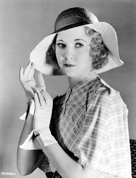 Promotional photograph of actor Una Merkel (1930s)